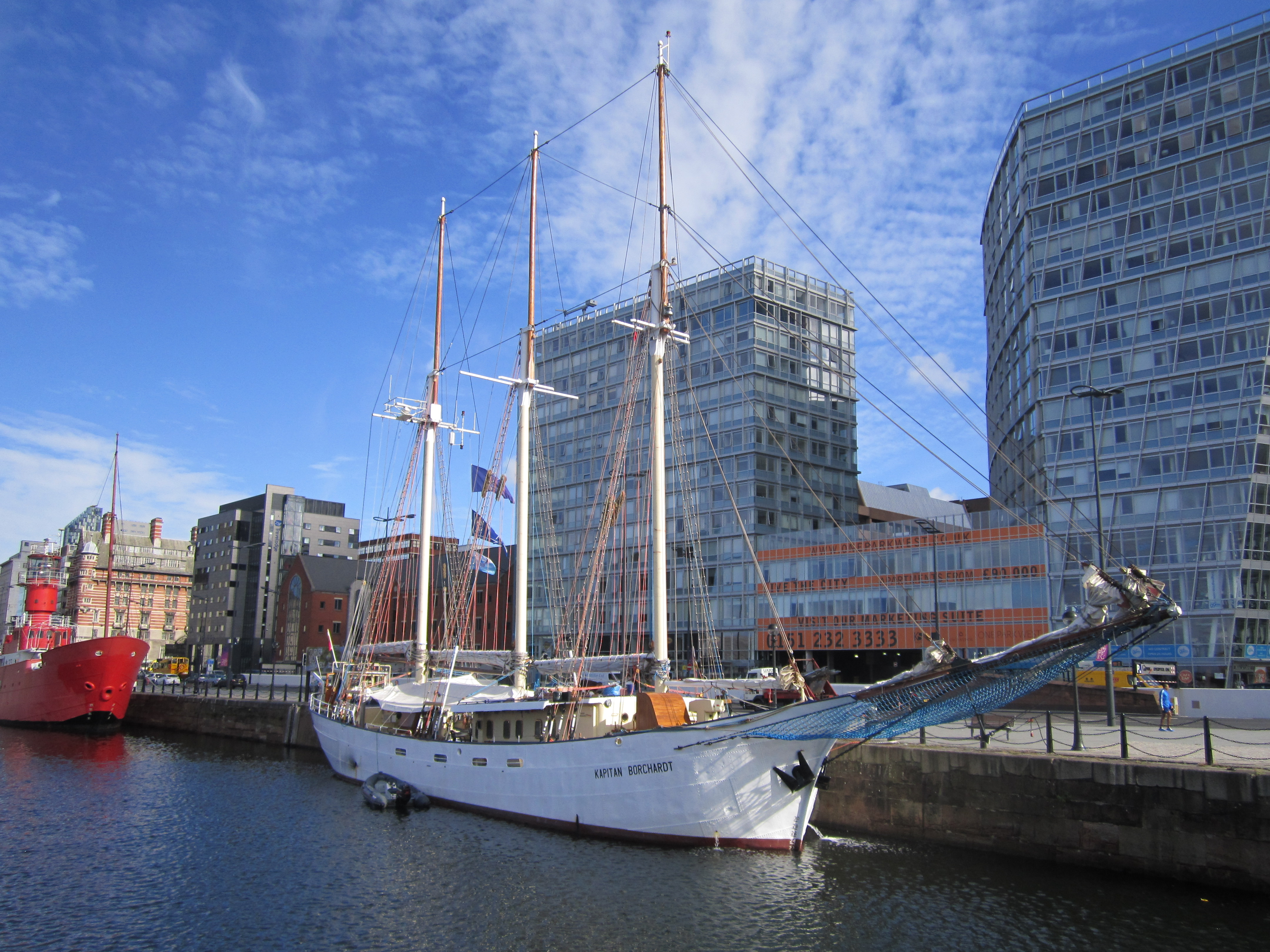 Photo taken at Canning Dock, Liverpool, England.